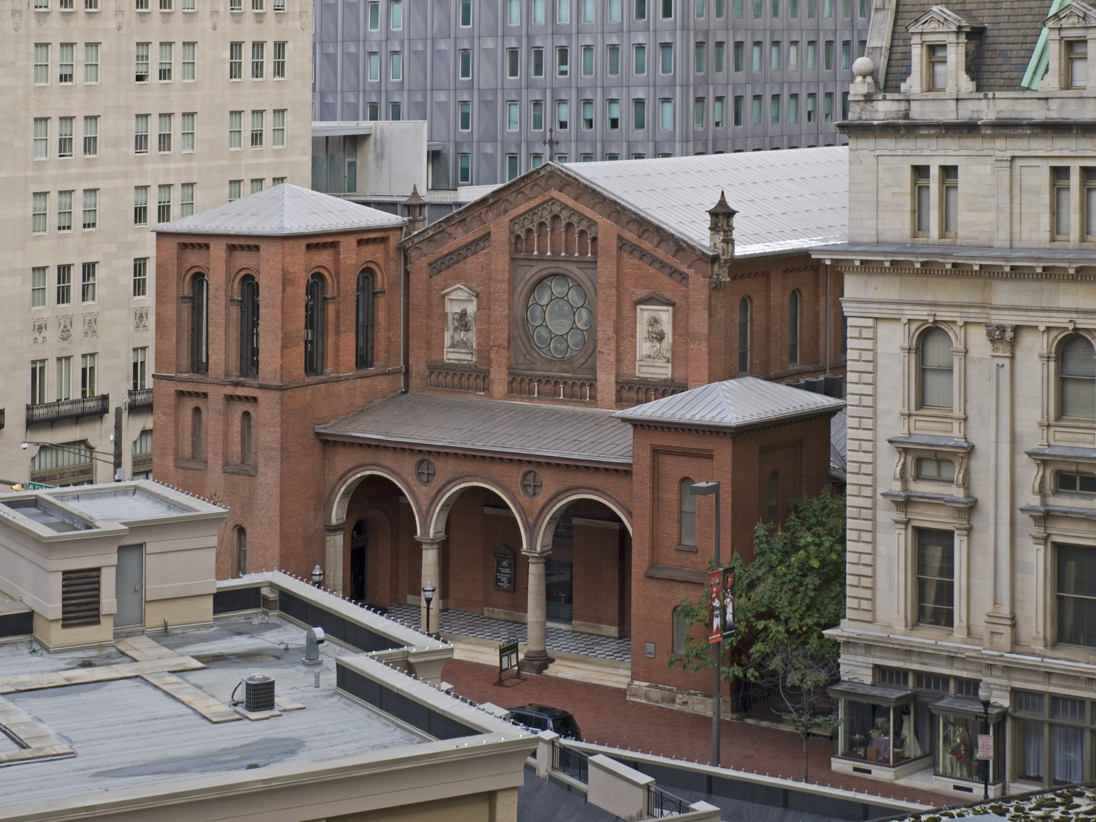 St. Paul's Episcopal Church, Baltimore, from above